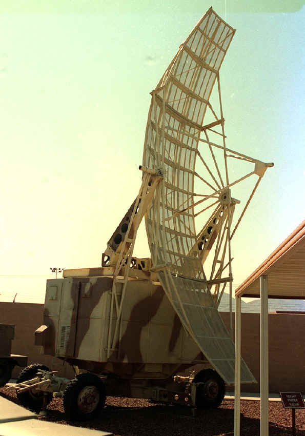 Soviet-built PRV-11 "Side Net" E-band height finder (also used by SA-2, SA-4 and SA-5, range 28 km, max height 32 km).